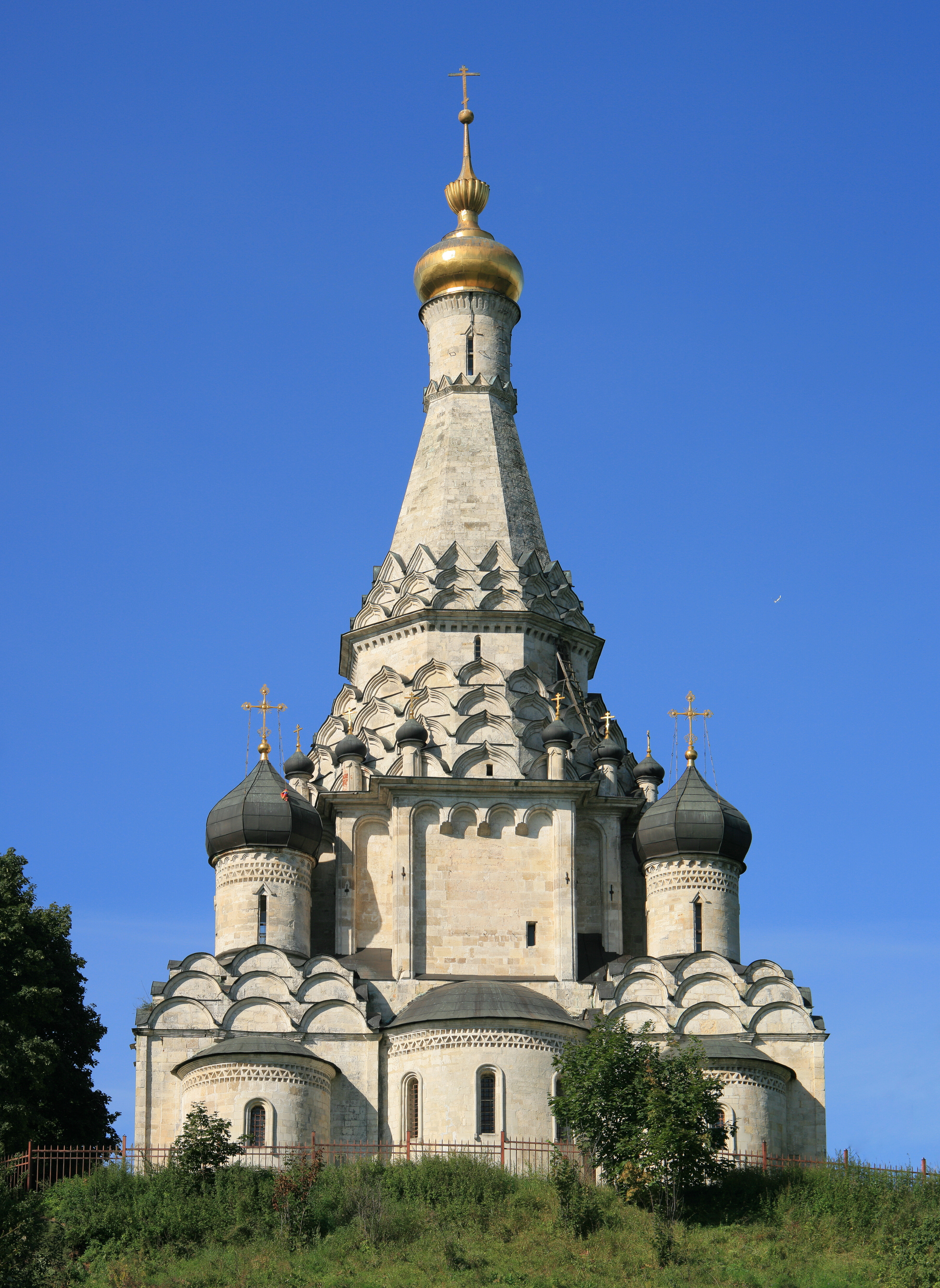 Transfiguration Church, Ostrov, Leninsky district of Moscow Oblast